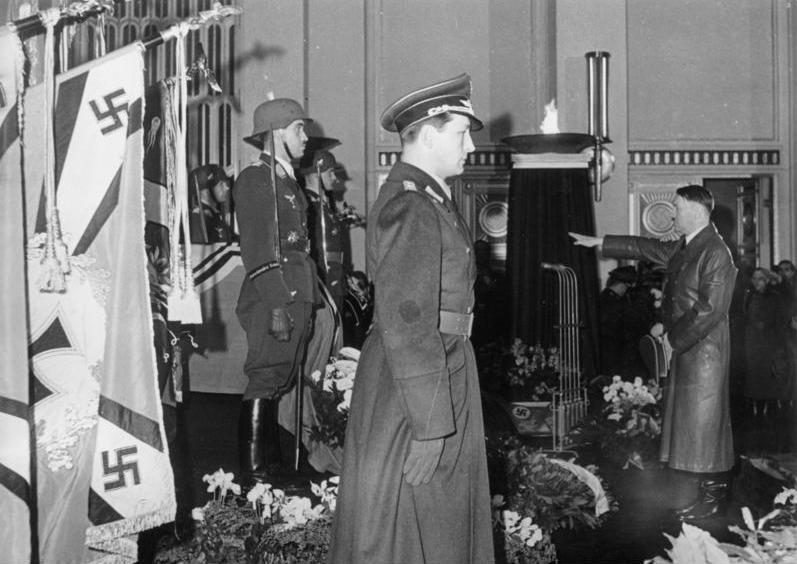 Hitler salutes dead Ernst Udet. In fact, Udet commited a suicide, and the version about death in a crash of a new aircraft prototype was a propaganda cover story